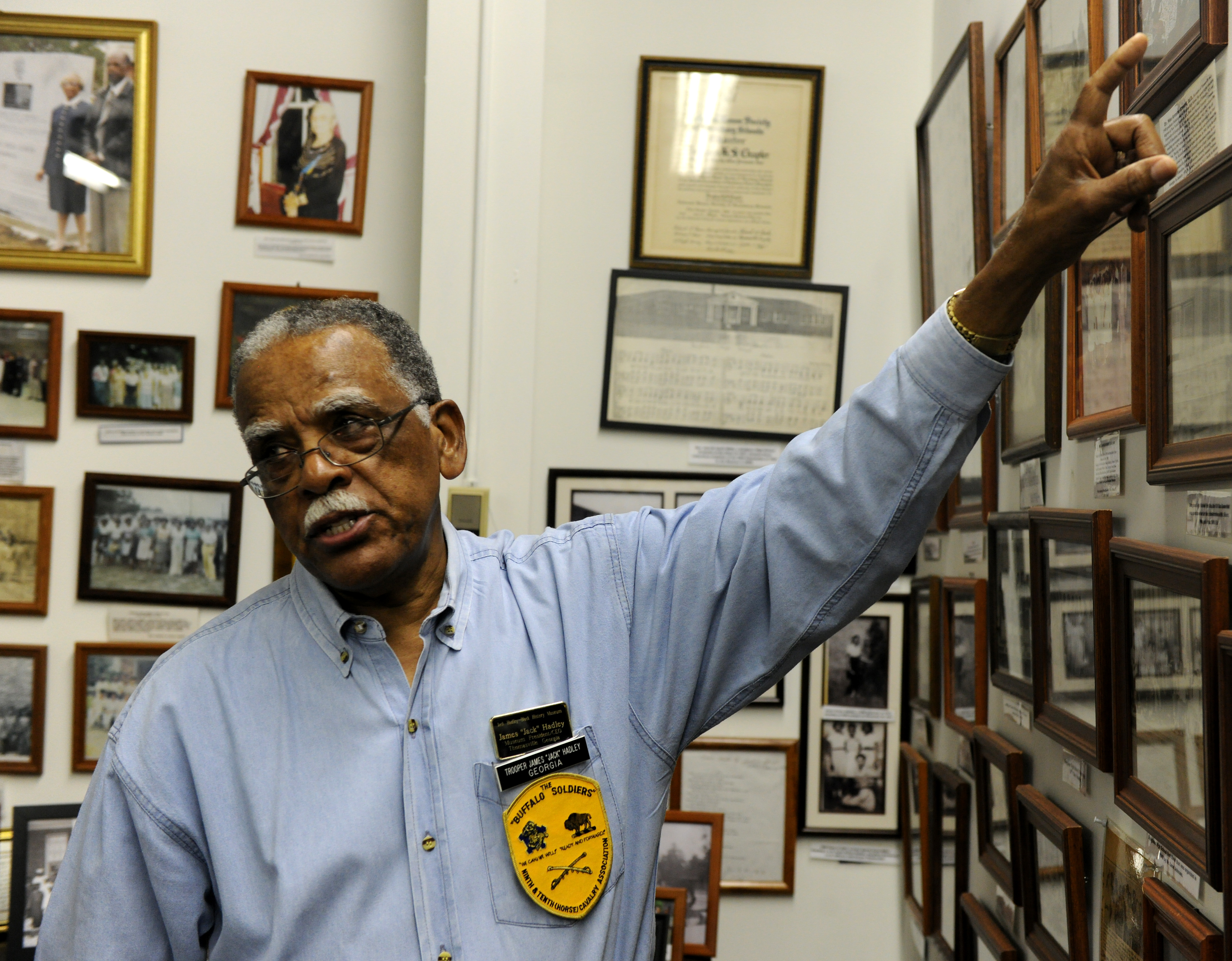 THOMASVILLE, Ga. -- Retired Chief Master Sgt. James “Jack” Hadley gives a tour of the Jack Hadley Black History Museum during Black History Month Feb. 12, 2011.